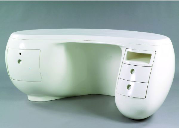 Boomerang desk by Maurice Calka Sculptor. Fiberglass —1969